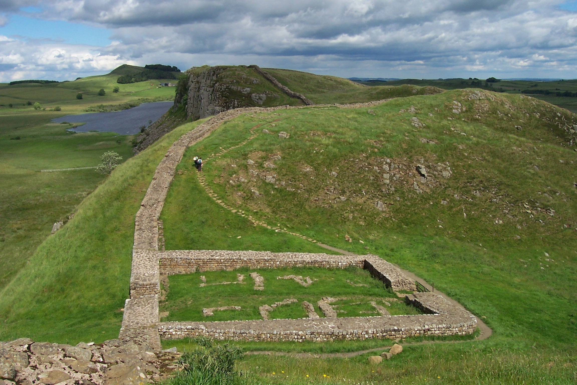 The remains of Milecastle 39 (coordinates 55° 0' 13.12" N, 2° 22' 32.74" W) on Hadrian's Wall; near Steel Rigg, looking east from a ridge along the Hadrian's Wall Path. Milecastle 39 is also known as Castle Nick.